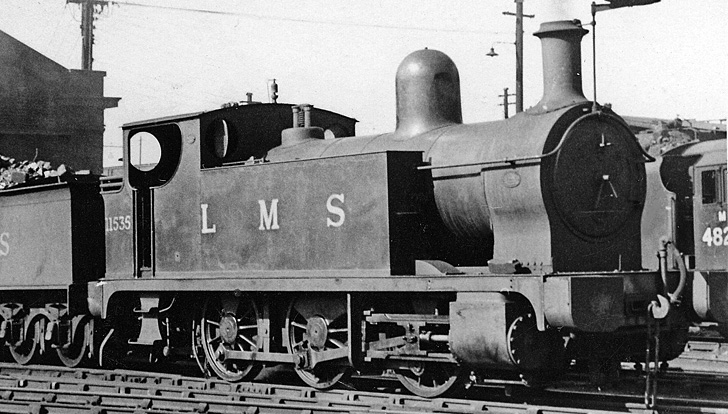 Bank Hall Locomotive Depot in 1948: two ex-Lancashire & Yorkshire engines. View SW, outside the smaller through Shed: ex-L&Y 1F 0-6-0T No. 11535, fitted with dumb buffers and swinging spark-arrestor for working in the Docks; behind it is Class 30 6F 0-8-0 No. 12782. (Beyond can be glimpsed an 8F 2-8-0 with the unusual combination of 'M' as well as the BR initial '4' added to its number).